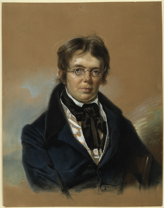 Depicted person: Peter Christian Beuth